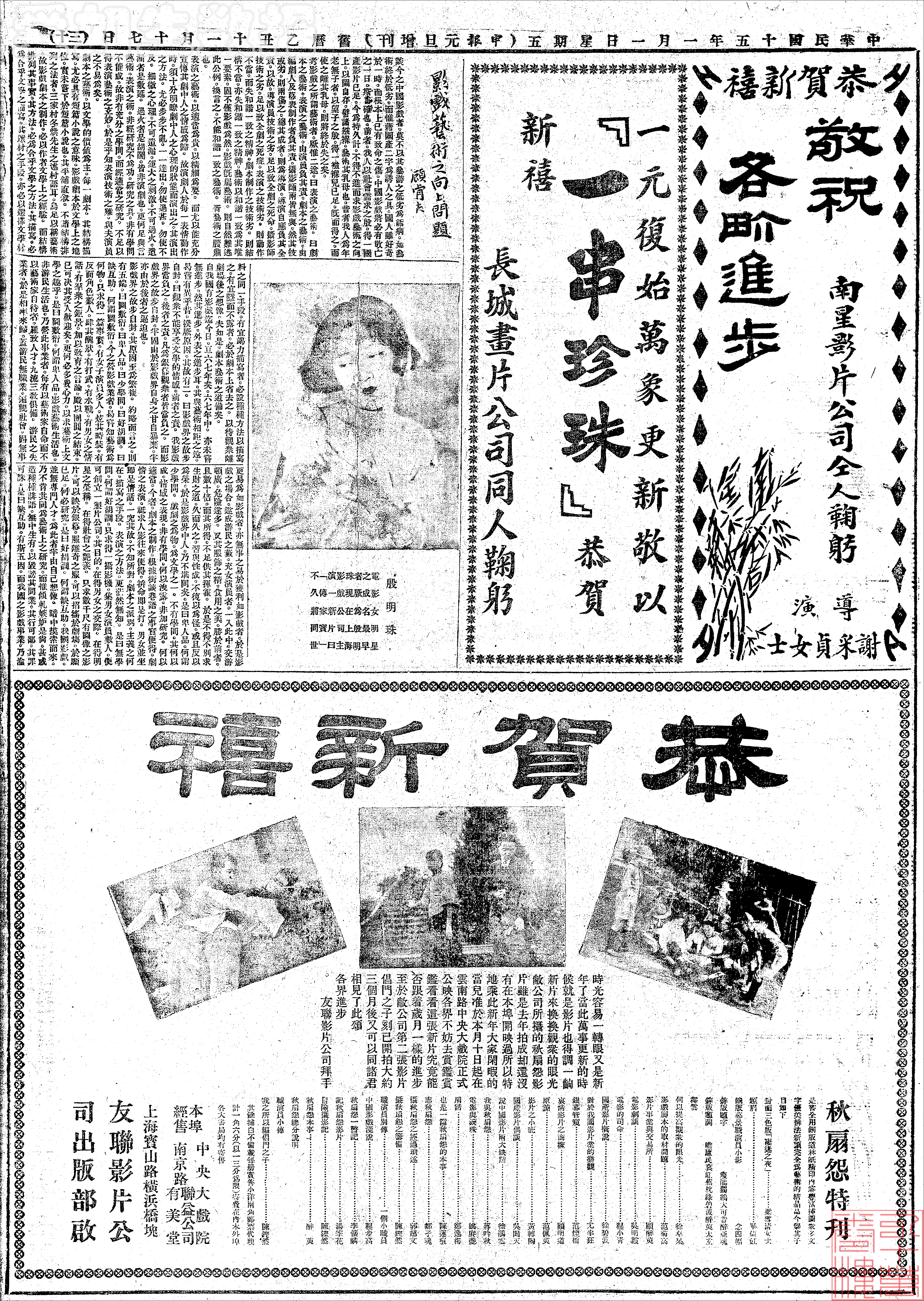 Shun Pao 1926-1-1 page 50